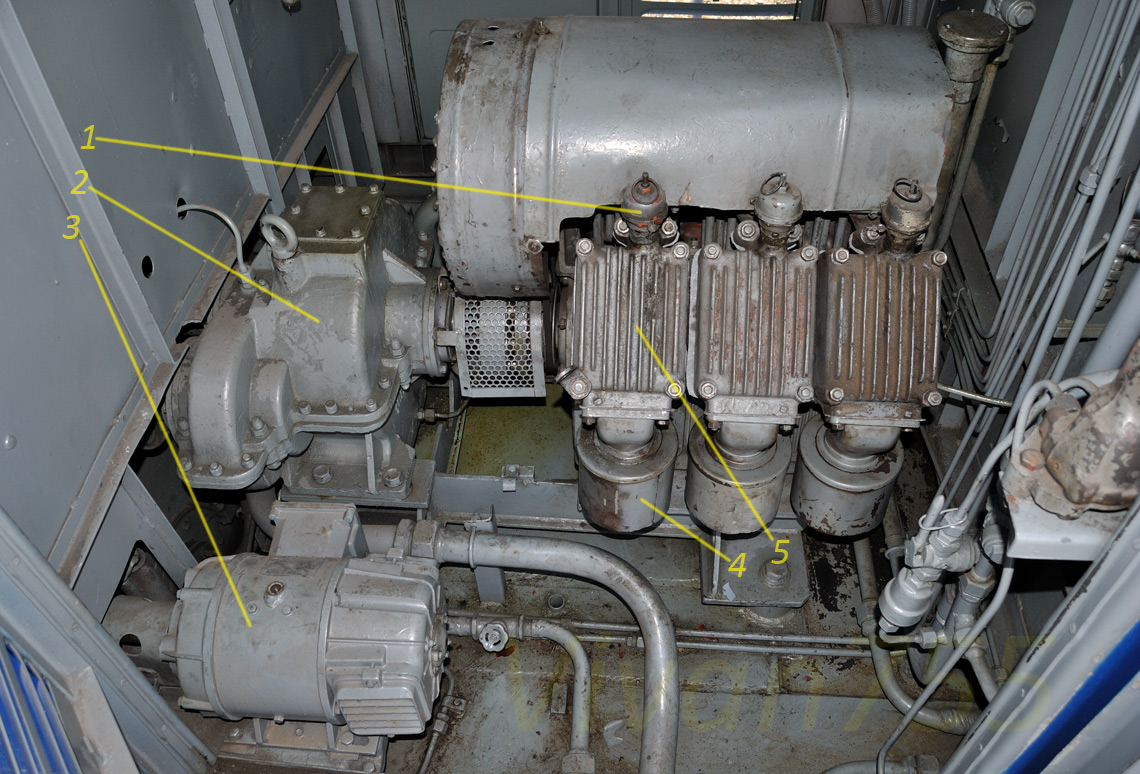 Compressor PK-5,25 of russian shunter TGM6